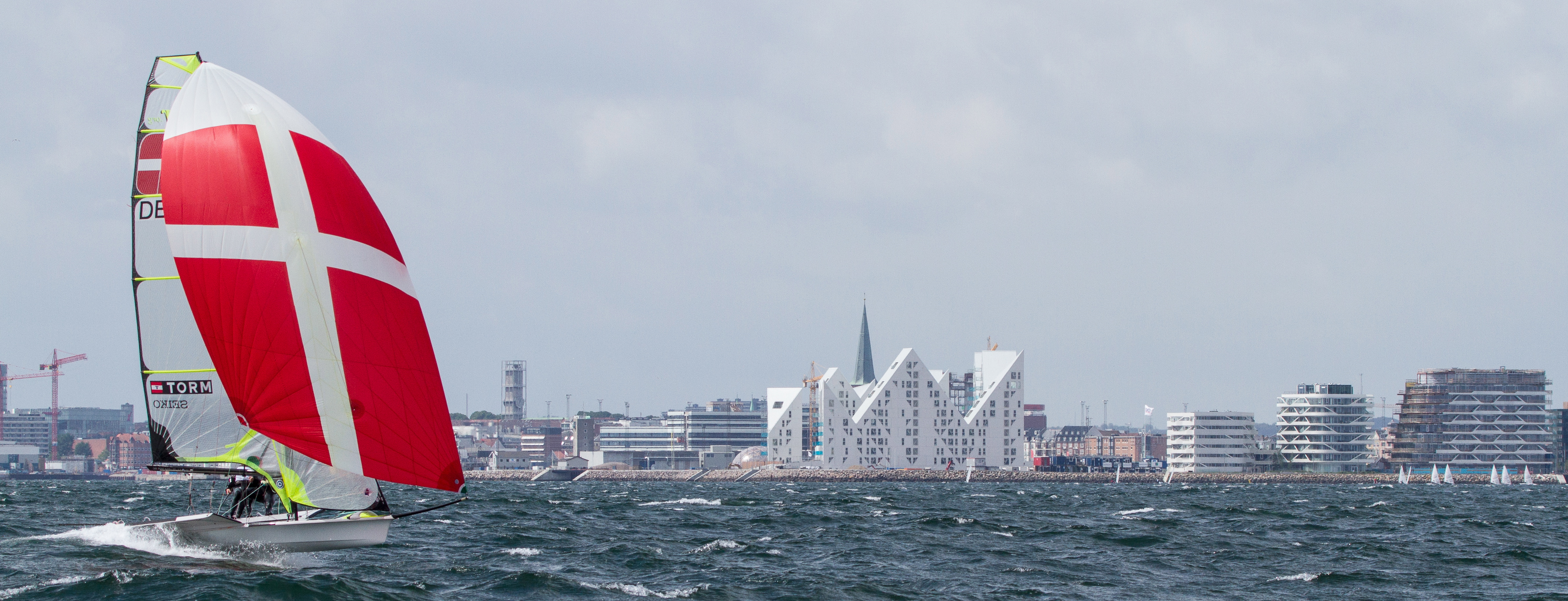 Aarhus Bay, 2014, Isbjerget in the background